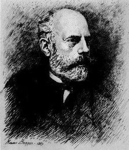 Portrait of Edmond Hédouin